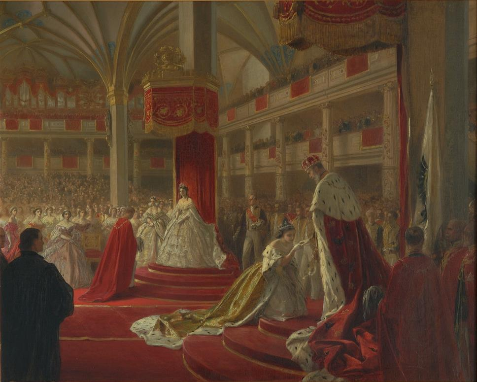 Detail of "The Coronation of the King of Prussia, 18 October 1861: the Crown Princess doing homage"